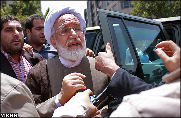 نماز جمعه ۲۶ تیر ۱۳۸۸ به امامت هاشمی رفسنجانی